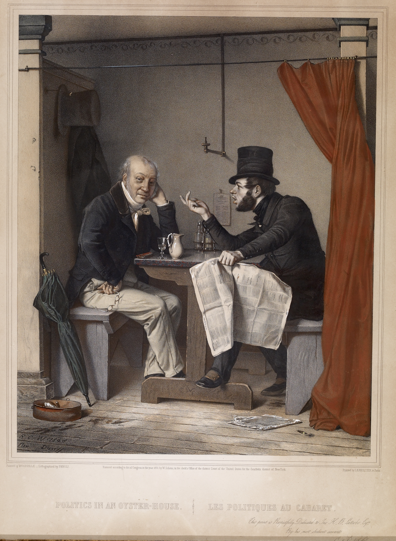 This print bears a dedication to John H. B. Latrobe of Baltimore.